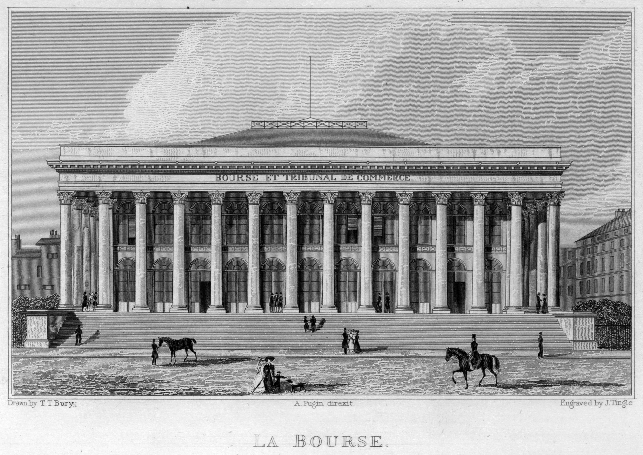 Construction of the Bourse des valeurs began in 1808, immediately following the demolition of the architecturally-damaged Couvent des Filles Saint-Thomas. Inauguration of the Bourse took place in 1826, though construction was not officially completed until the following year. The rectangular dimensions of the building are 69 meters by 41 meters, and a total of 64 columns (shown here) decorate all four sides. The Bourse once housed both the Tribunal de commerce and the Chambre de commerce. This engraving was created in 1831.